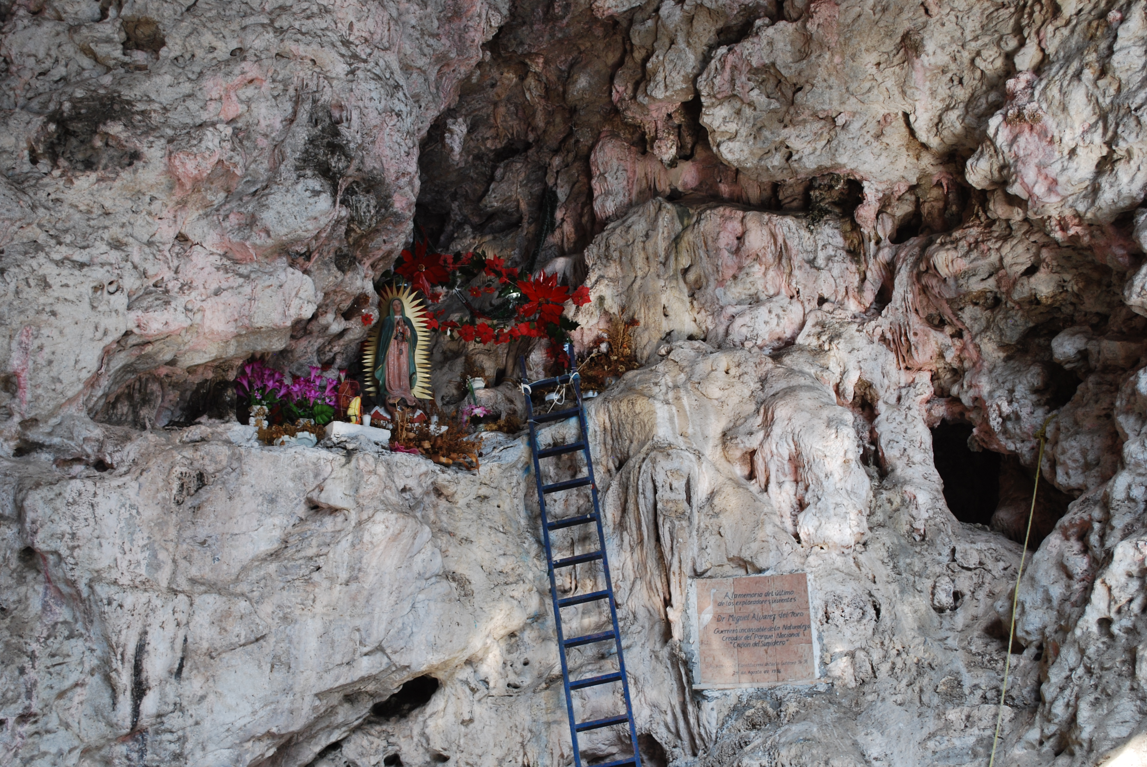 Shrine inside the Cueva de los Colores in Sumidero Canyon — in the state of Chiapas, Southwestern Mexico.